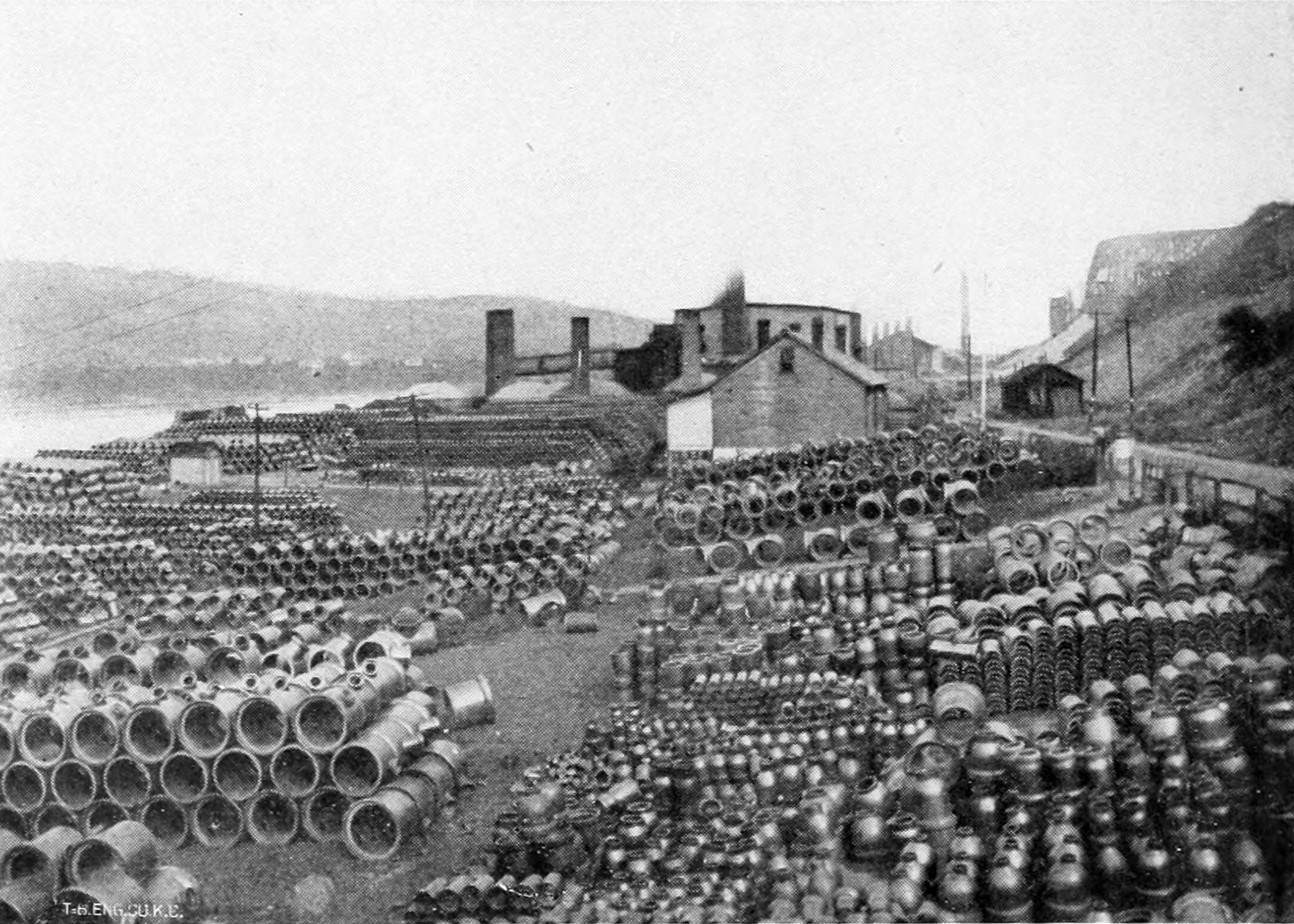 Clifton Sewer Pipe yard, New Cumberland, West Virginia.